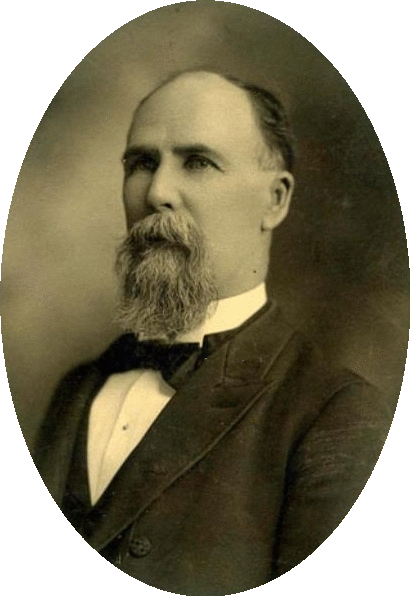 B&W photo of brigadier general Thomas F. Toon, state superintendent of public instruction in Raleigh, North Carolina. Oval photo mounted on rectangular cardboard frame. North Carolina Museum of History; Accession Nbr: H.1914.81.6